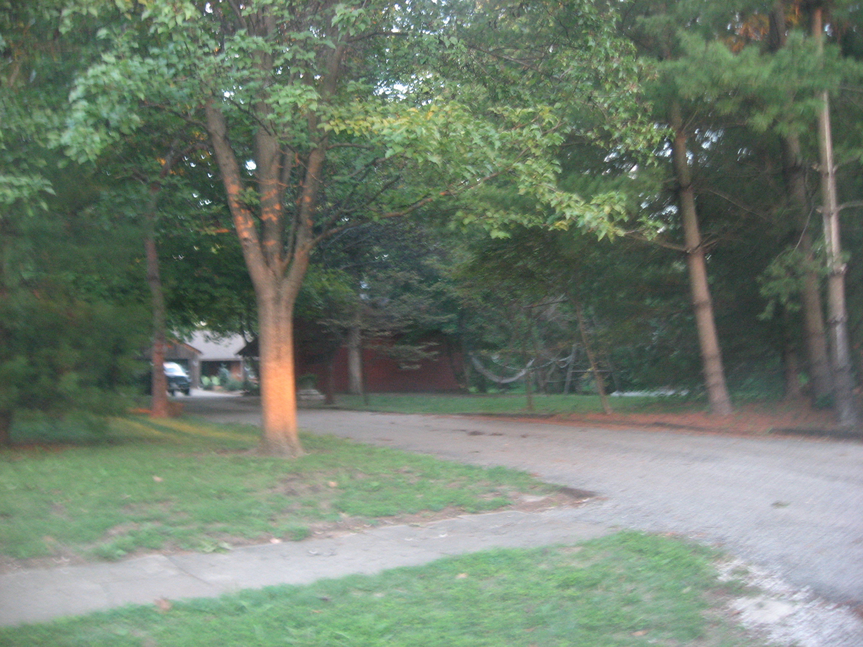 Driveway to Larchmound, located at 1030 S. Morgan Street in Olney, Illinois, United States. Built in 1866, it is listed on the National Register of Historic Places.